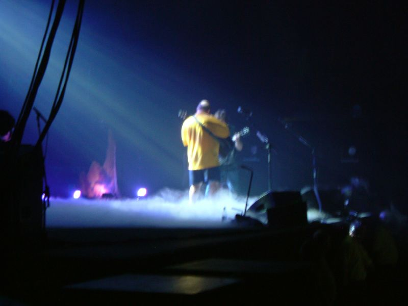 Tenacious D performing live